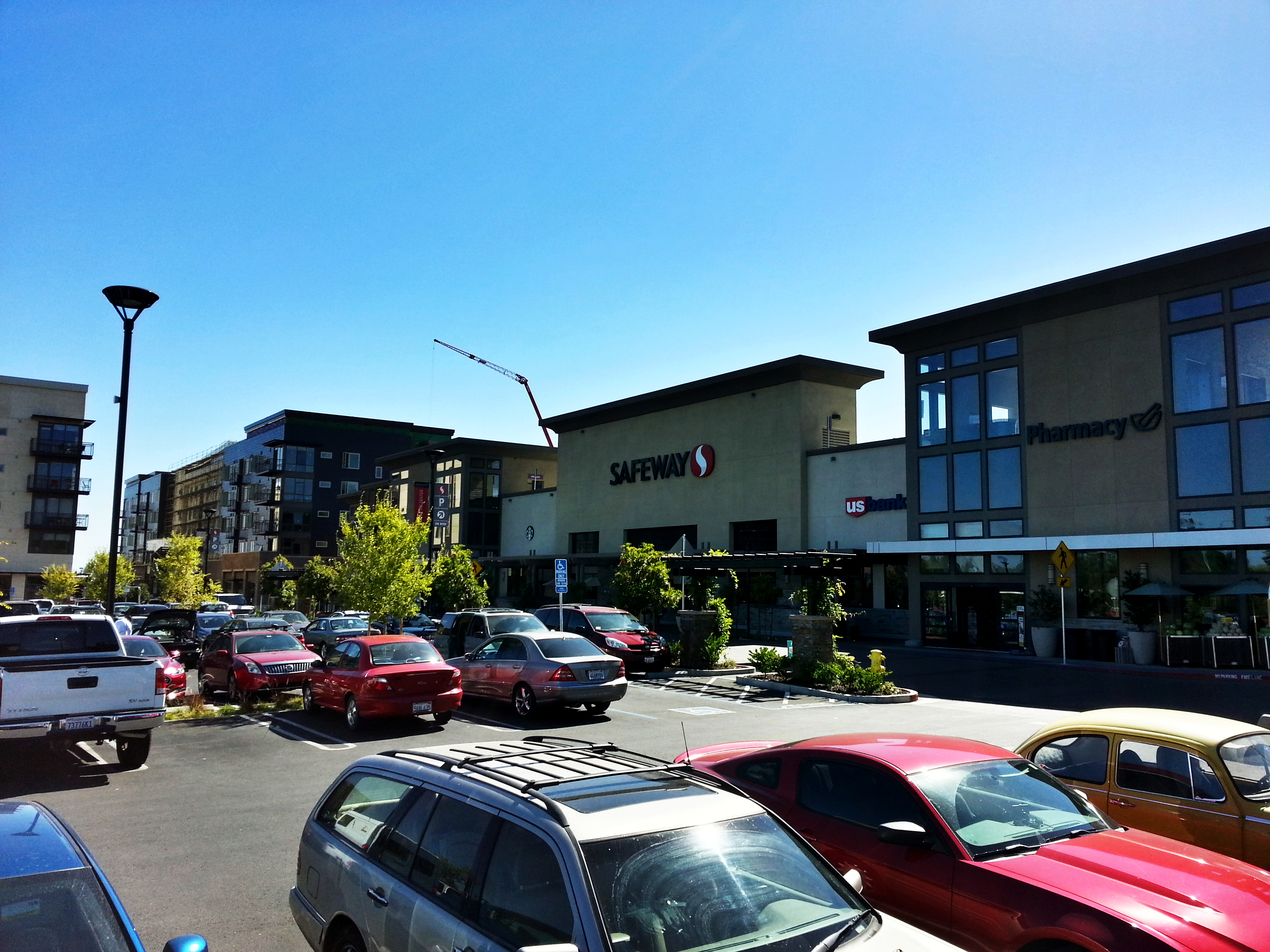 A new (and largest) Safeway in the mixed-use development "Carmel The Village" in the San Antonio neighborhood of Mountain View, Calif. This Safeway also features rooftop parking.